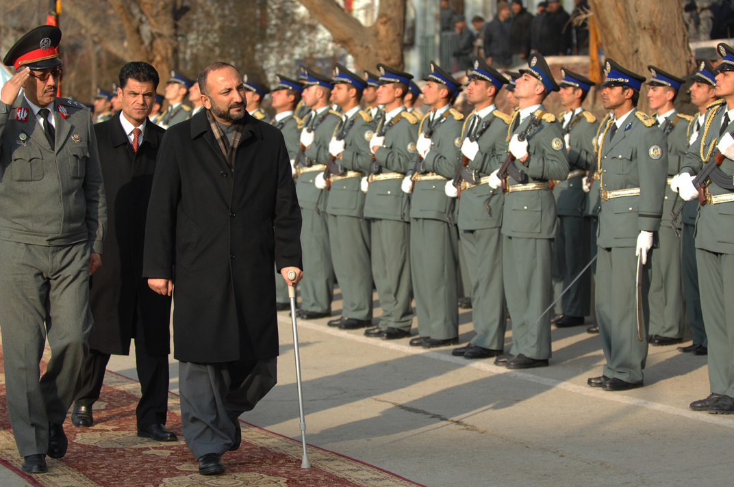 Afghan Minister of the Interior H.E. Mohammad Hanif Atmar, arrives at the graduation of Afghan National Police Academy cadets. Upon graduating the three year course, cadets become ANP officers and earn a degree in criminal justice. The academy trains men and women from more than 34 provinces. (U.S. Air Force photo by Senior Airman Brian Ybarbo/RELEASED)